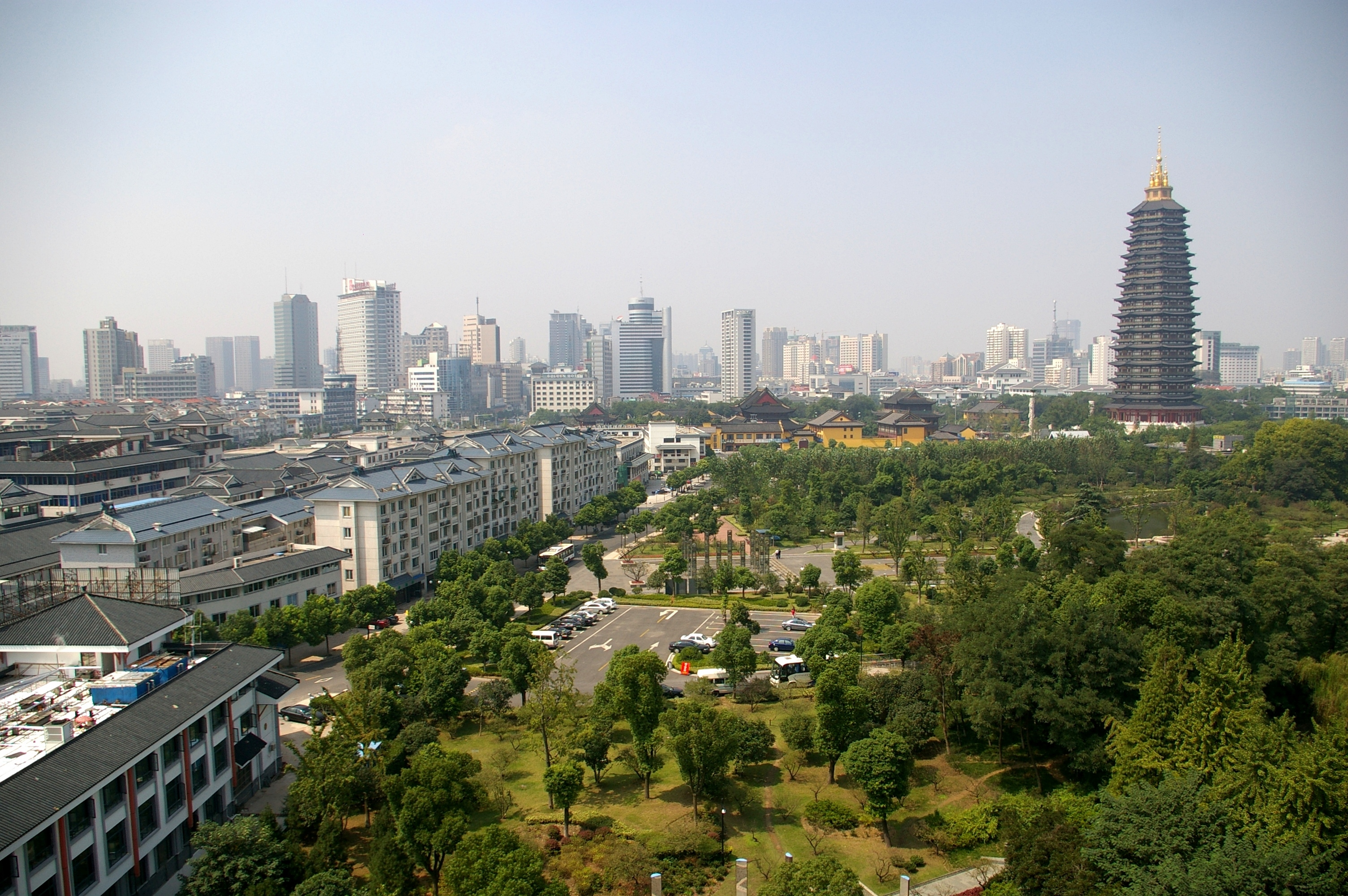 Changzhou, view on the city and Tianning Pagoda from Wenbi Pagoda